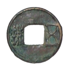 china historical coin, goshusen